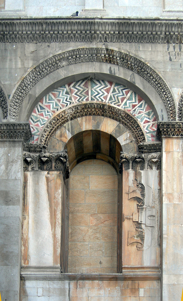 An old window in the Cathedral thought to be the Golden Window from which a ray of sun at midday on 25th March, started the New Year during the Pisan Republic (since IX century until 1749).